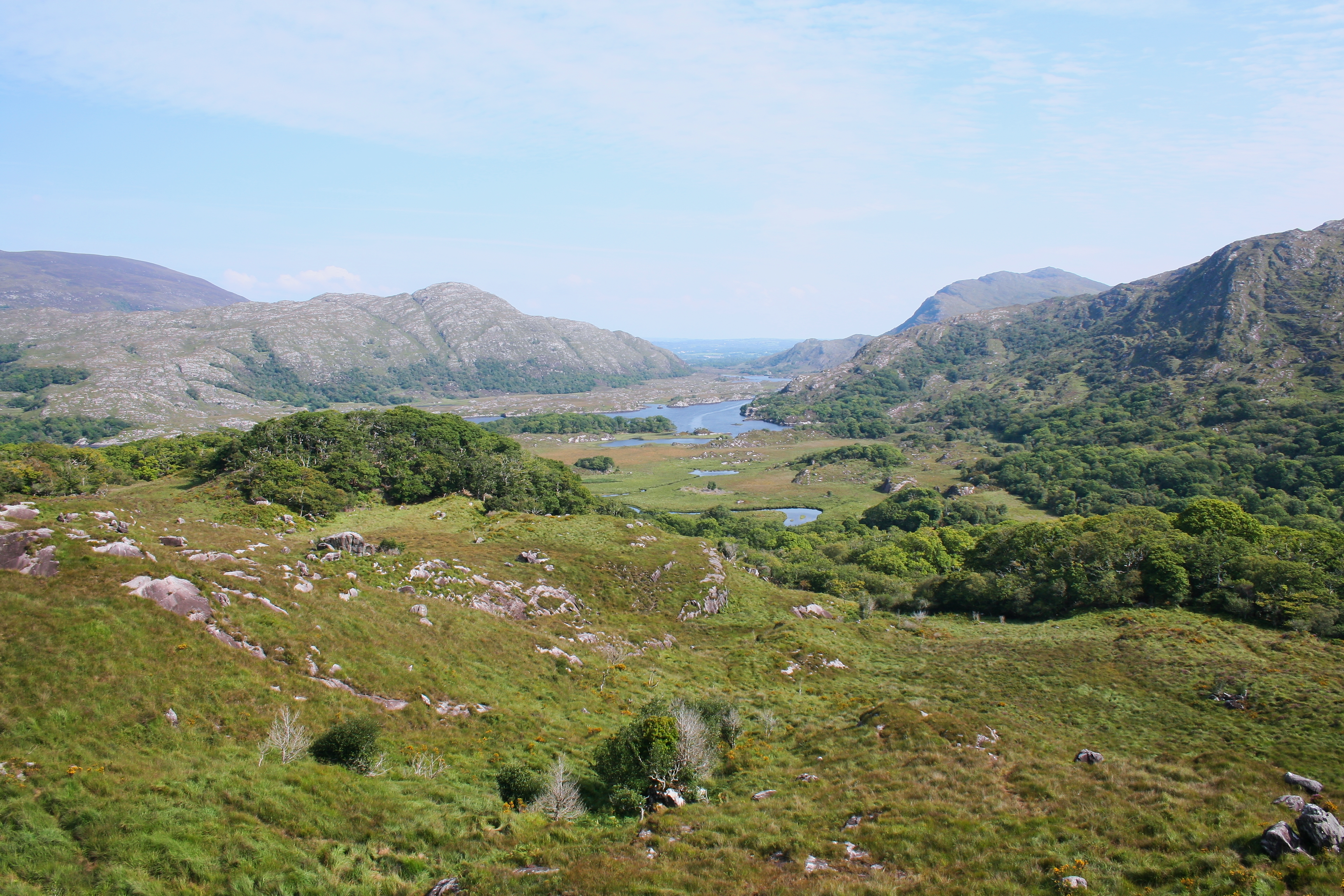 Lakes of Killarny from Ladies View / County Kerry / Ireland